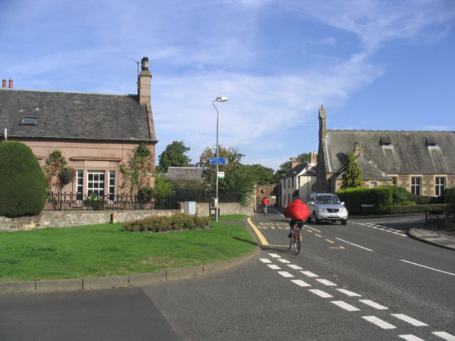 Darnick Village. Darnick is a small attractive village to the west of Melrose. To the right is the village hall (Smith Memorial Hall) that has two world war memorial plaques built into the front of the building.